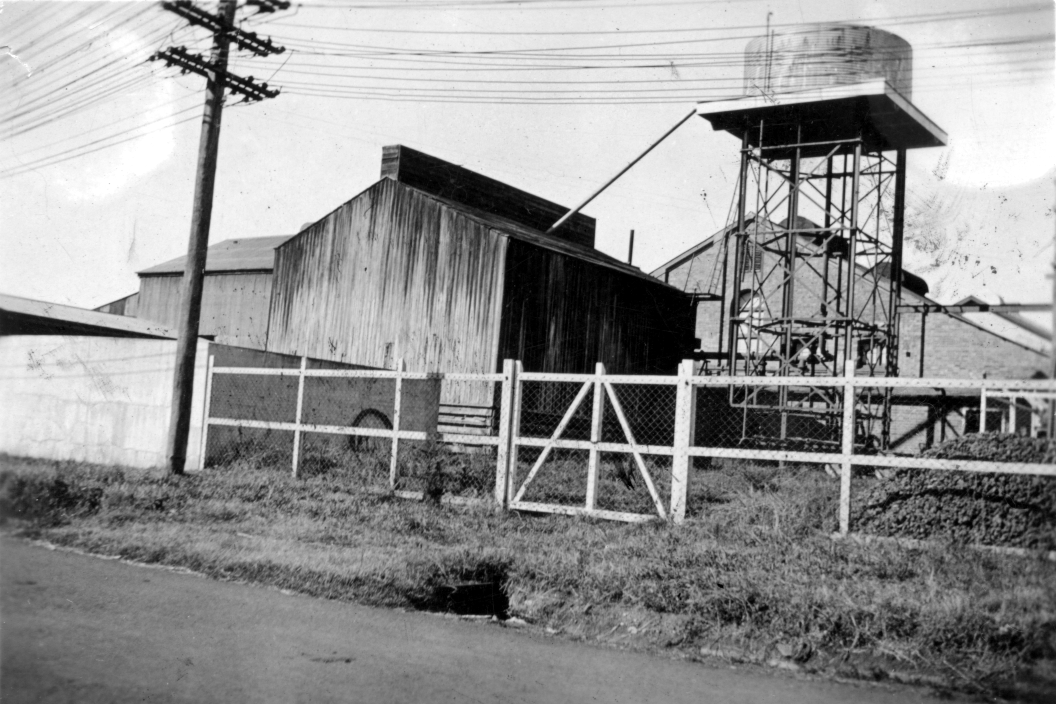 Toowoomba Powerhouse c1930s